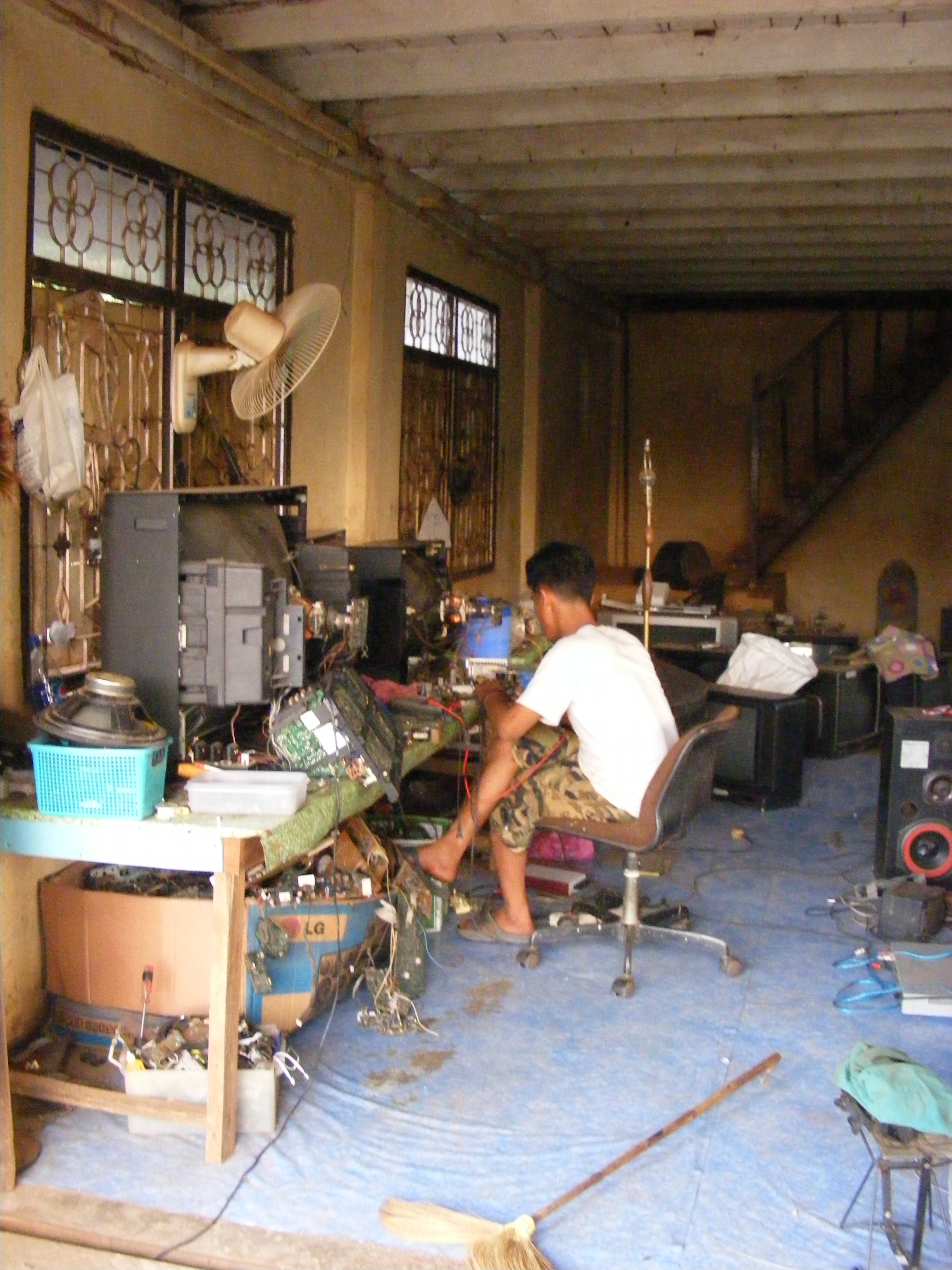 TV repair shop in Na Khun Yai, Thailand.